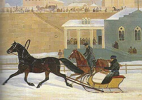 Horse in a racing sleigh with a rider. (A harnessed Orlov Trotter is depicted).